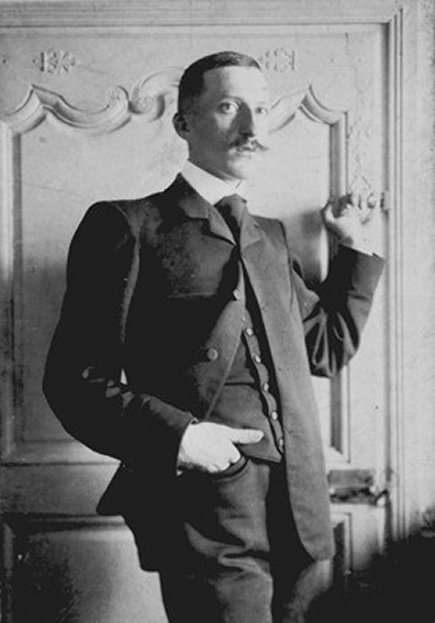 Portrait photograph of André Derain